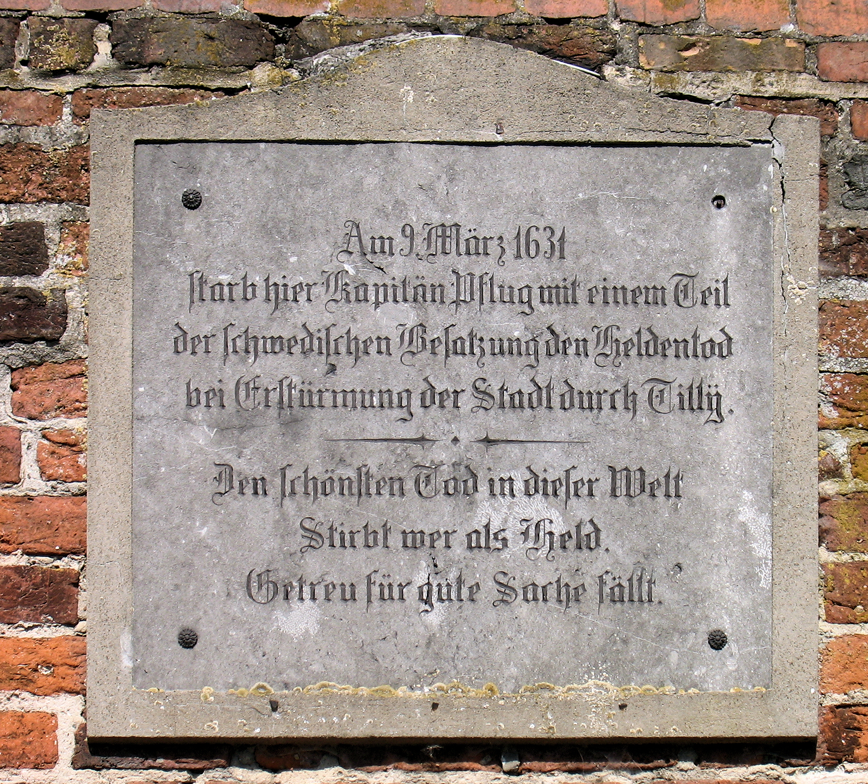 Memorial plaque, Kapitän Pflug, Friedländer Tor, Neubrandenburg, Mecklenburg-Vorpommern, Germany Koordinate:53°33′32″N 13°15′55″E / 53.55889°N 13.26528°E